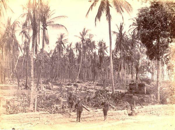 Cakranegara_destructions 1894